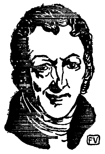 English demographer and political economist Thomas Malthus (1766-1834) by Félix Valloton (1865-1925)